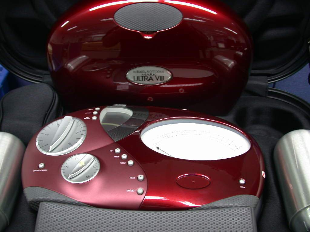 A Picture of the latest 2013 model of the Scientology E-Meter. It is in its carrying case.